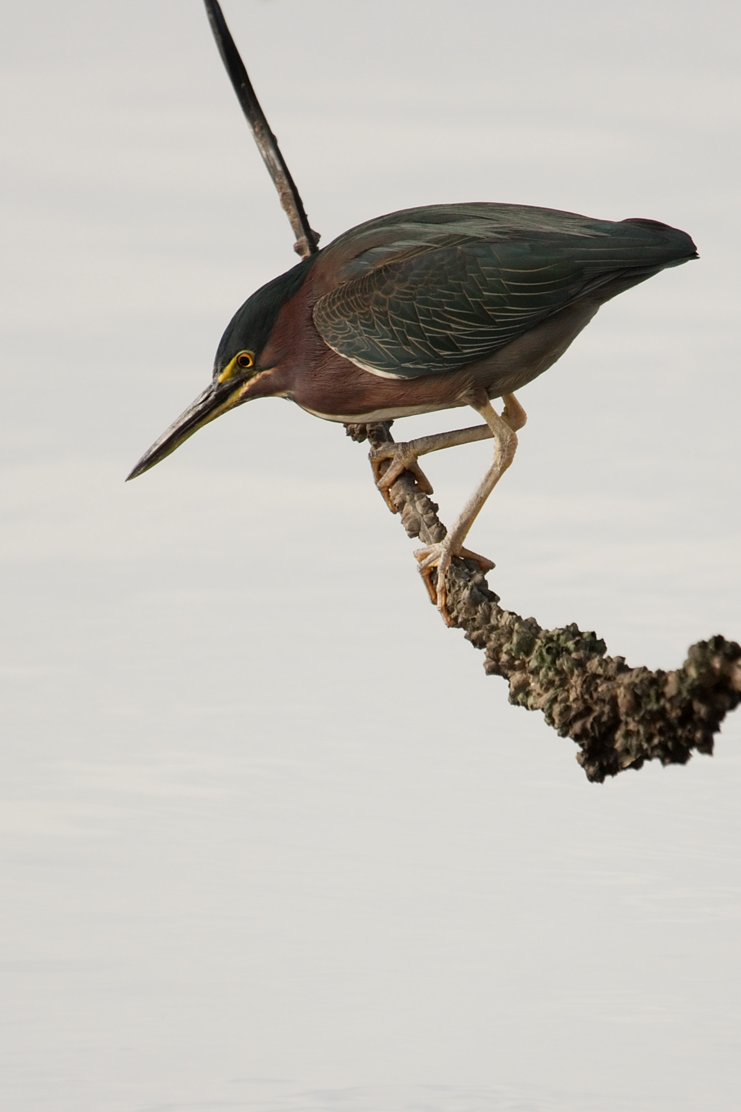 A green heron (Butorides virescens), North Miami, Florida